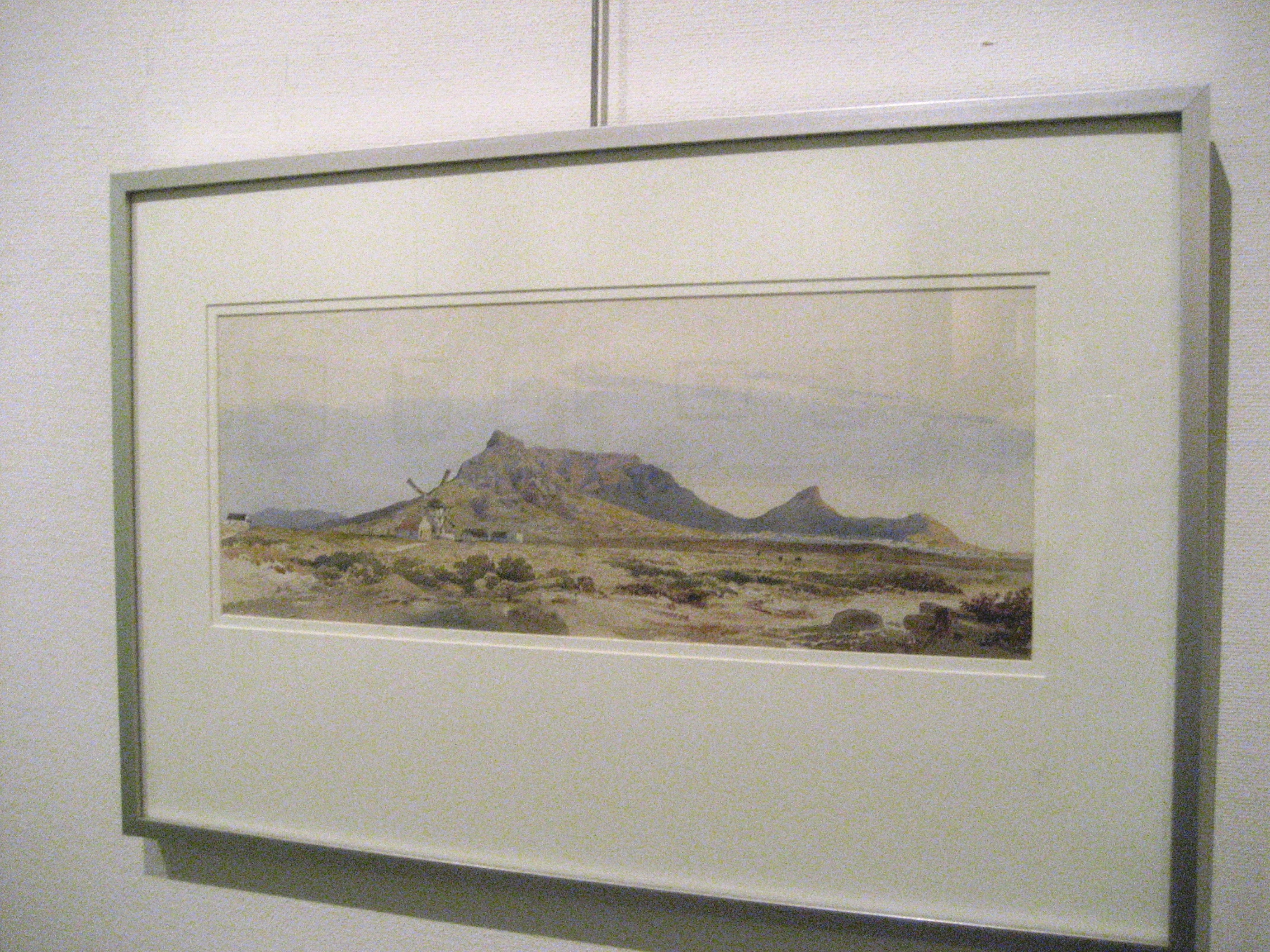 Solomon Caesar Malan (1812-1894): Table Mountain, from Salt River (1839).Stellenbosch Sasol Art Museum, South Africa